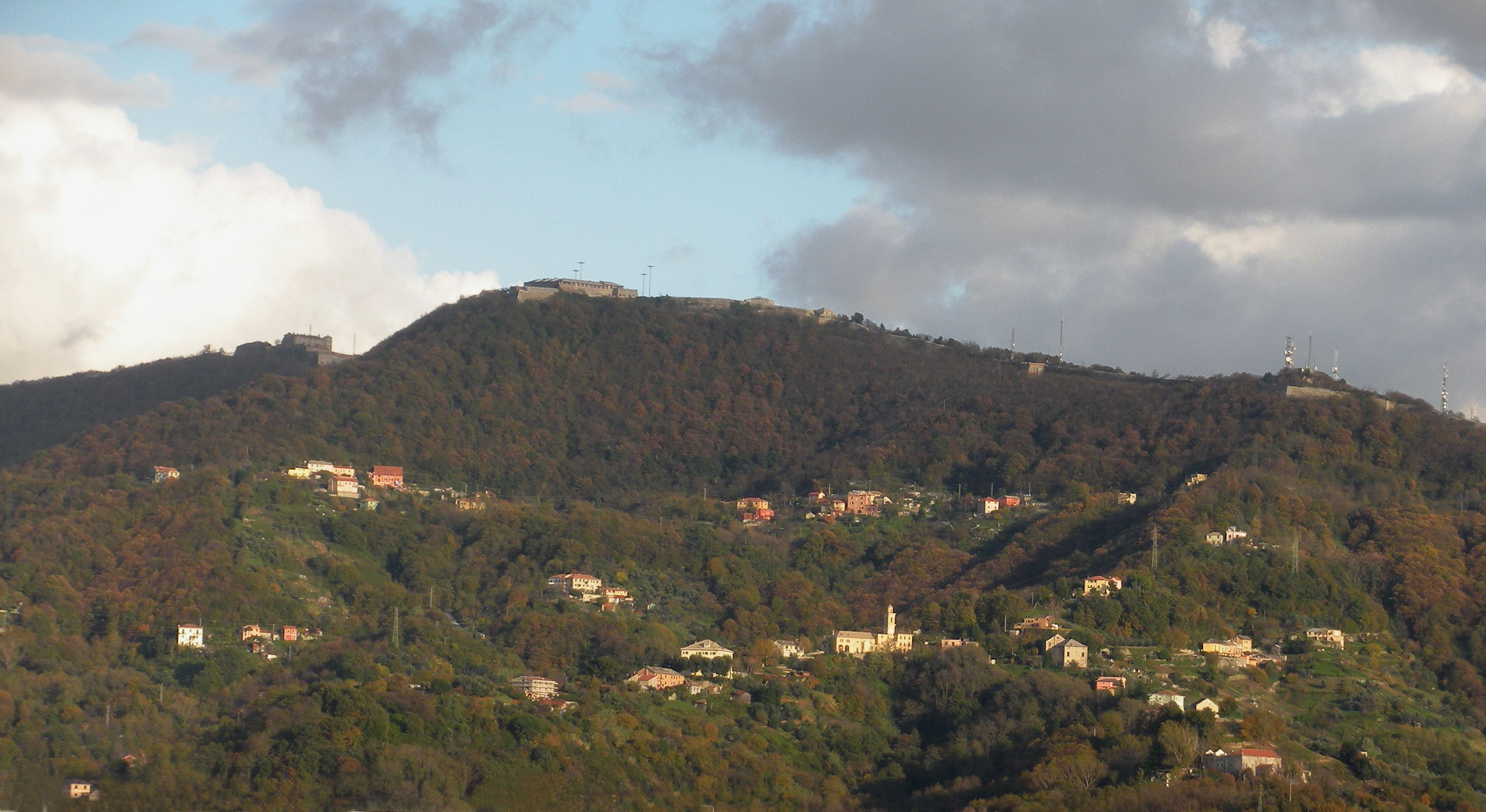 Genoa (Italy), quarter of Rivarolo, the villages of Garbo and Fregoso